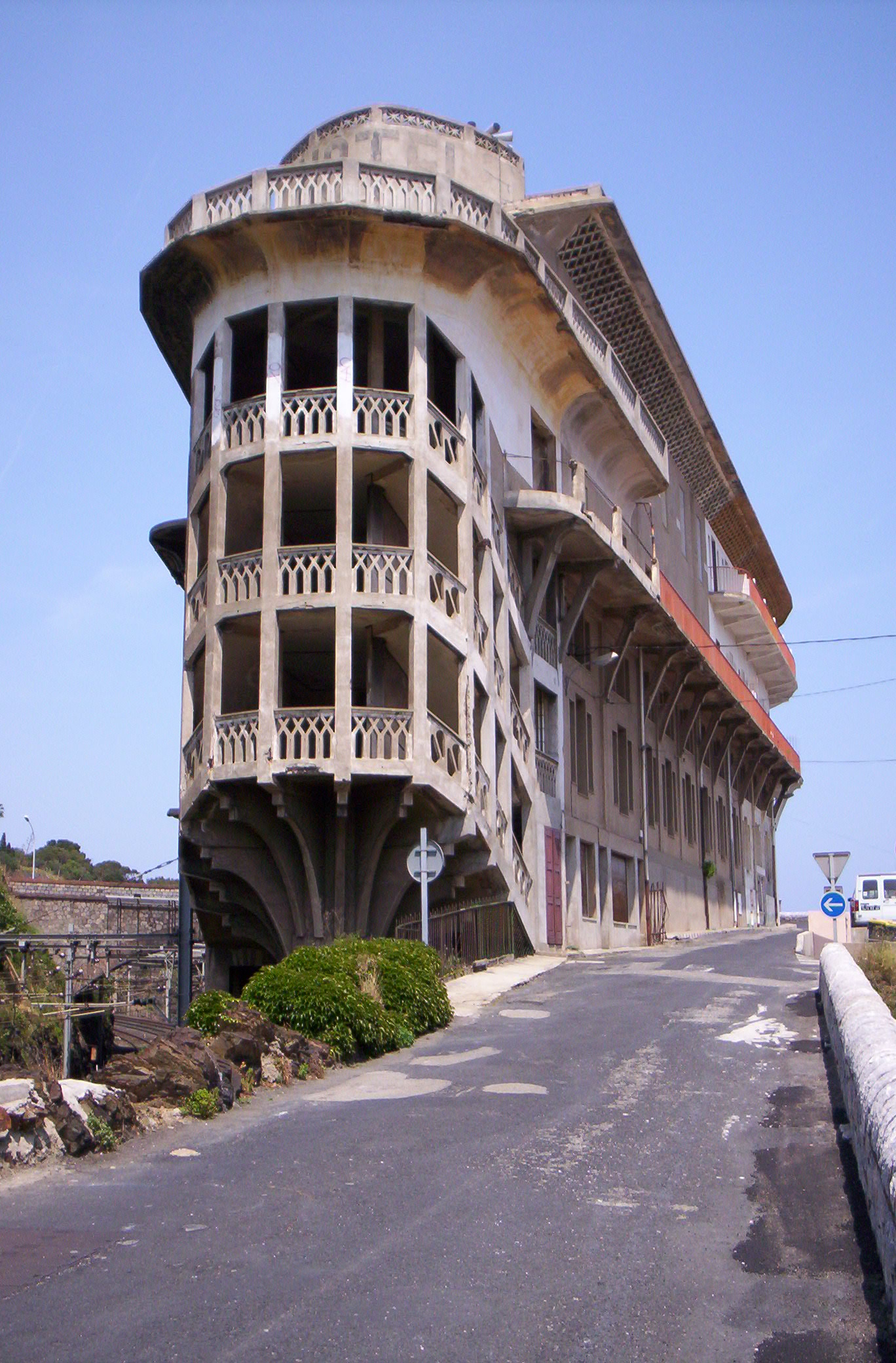 The brilliant ocean-liner shaped Art Deco Hotel Belvedere du Rayon Vert at Cerbere. The left side overlooks the railway, and the dining room at the far end overlooks the bay. A concierge offers tours in the afternoon, and rooms are available for holiday rents.